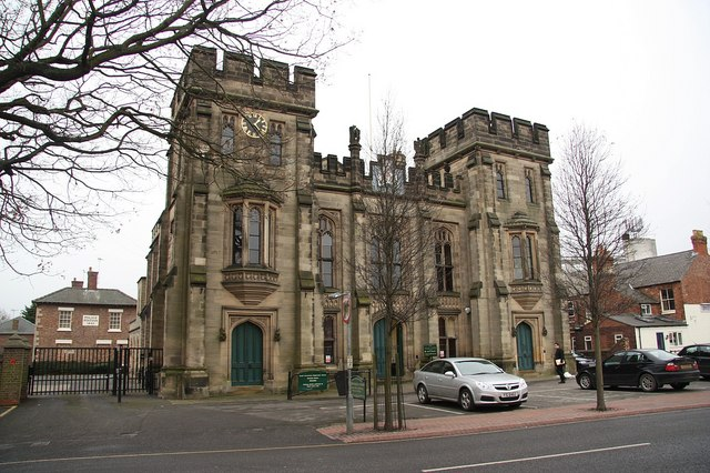 Sessions House Tudoresque and crenellated court buildings by Charles Kirk in 1842